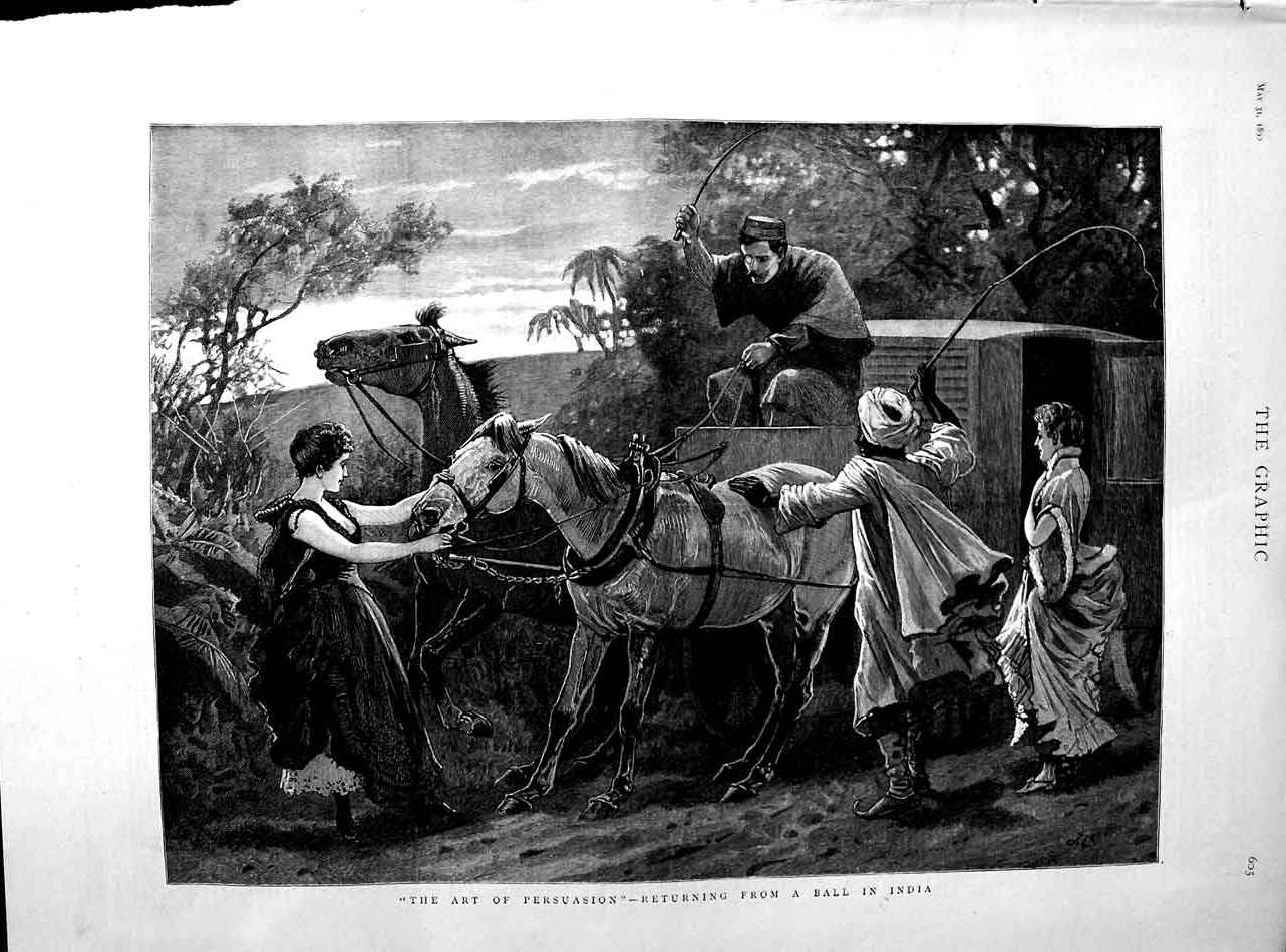 The art of persuasion'--returning from a ball in India," from The Graphic, 1890* Source: ebay, Apr. 2010